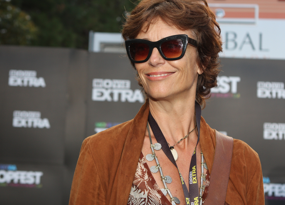 Rachel Ward arrives at the Tropfest 2012 short film festival at The Royal Botanic Gardens on February 19, 2012 in Sydney, Australia